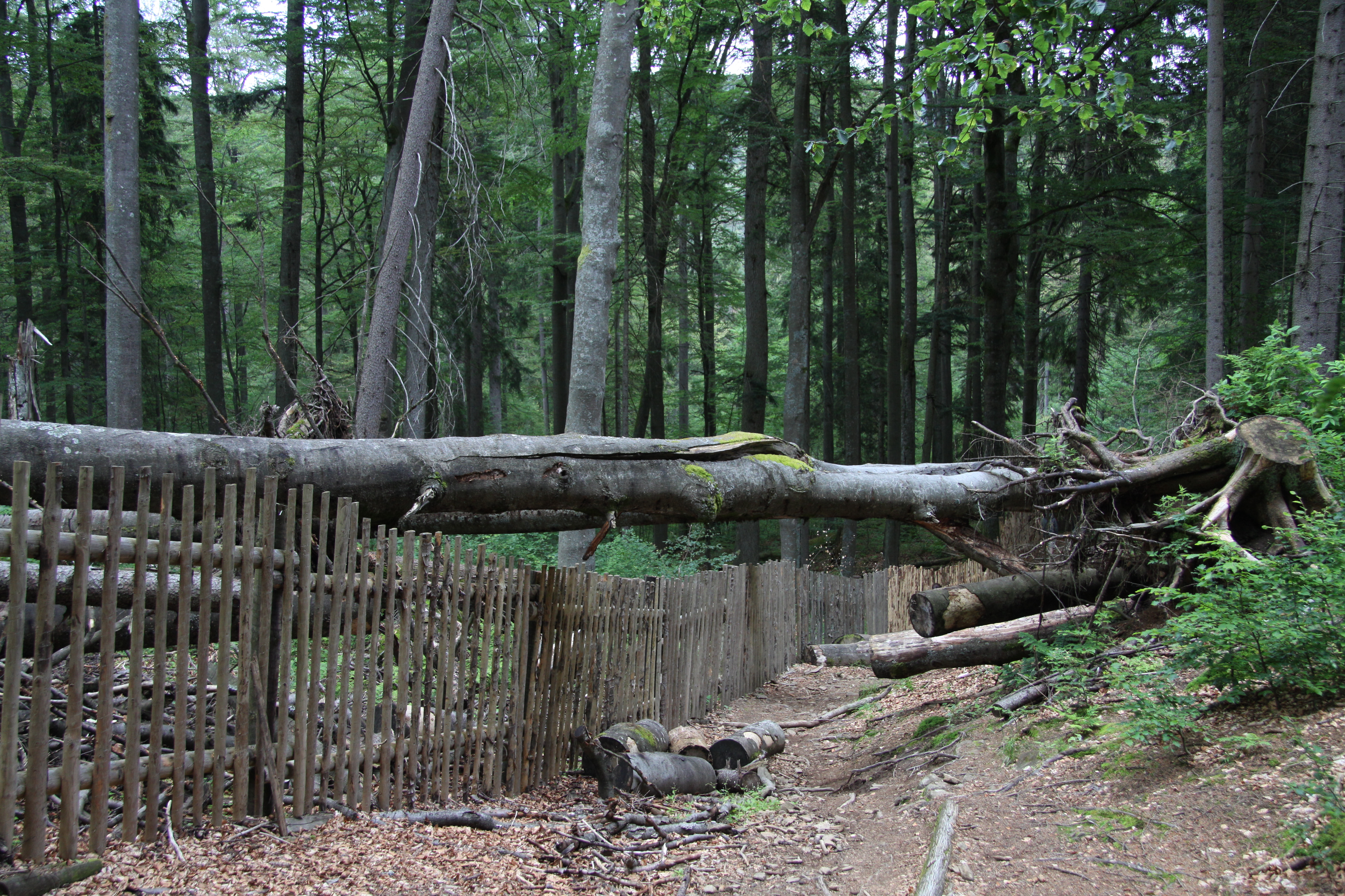 National nature reserve Boubínský prales during NS Boubínský prales trail, Prachatice District, Czech Republic - Google Maps - Google Earth